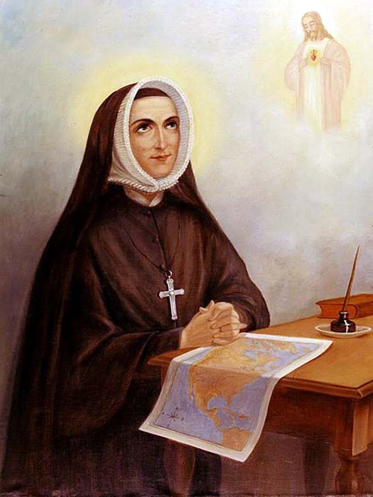 Saint Rose-Philippine Duchesne, sister of the Society of the Sacred Heart of Jesus, founderess of the congregation first house in America (1818)